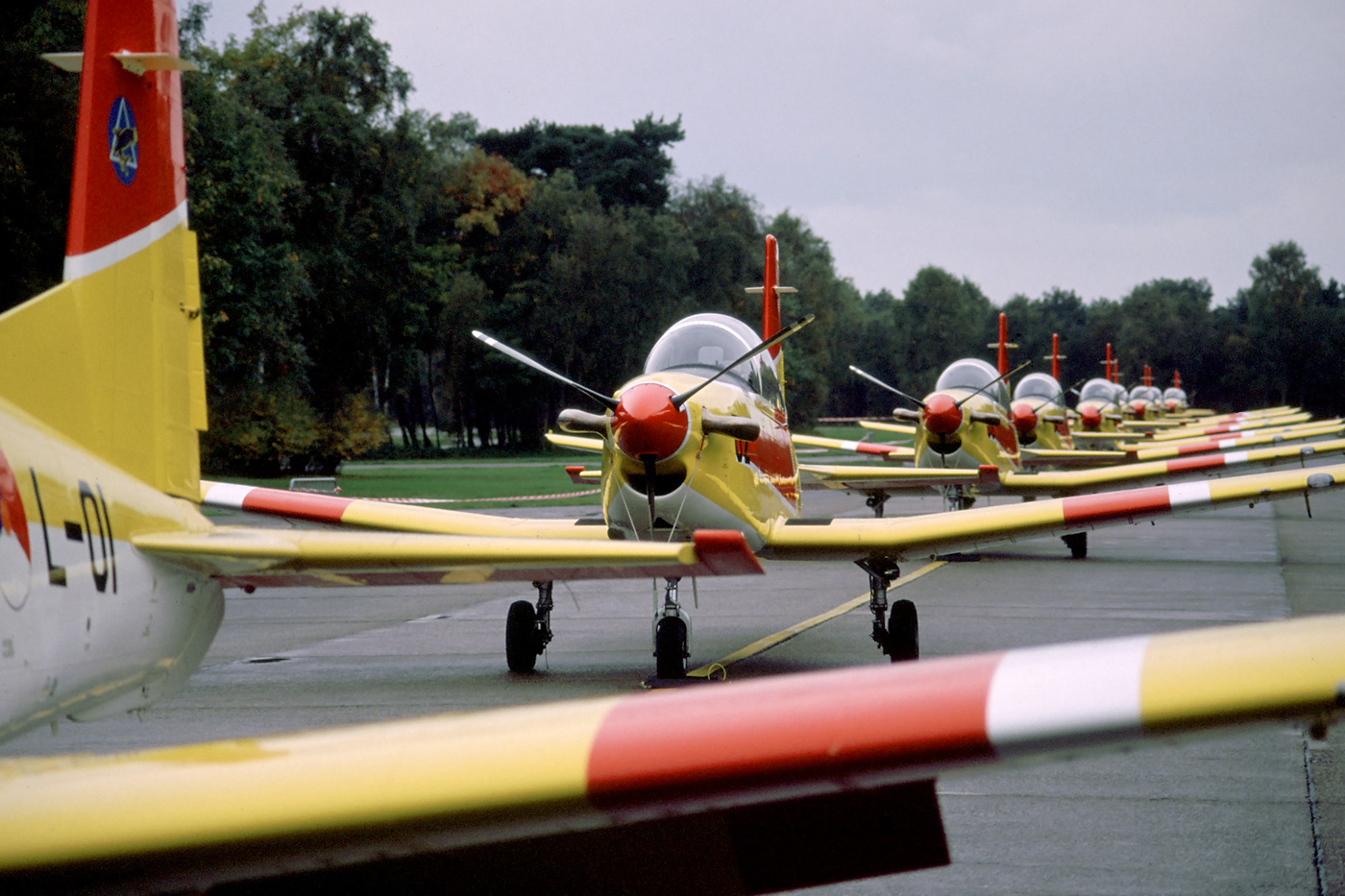 On 14 October 1989 all 10 PC-7s of the Netherlands Air Force were placed in a row at Woensdrecht for a photo day. The first trainers were delivered here in January 1989. Three additional aircraft came in 1997.